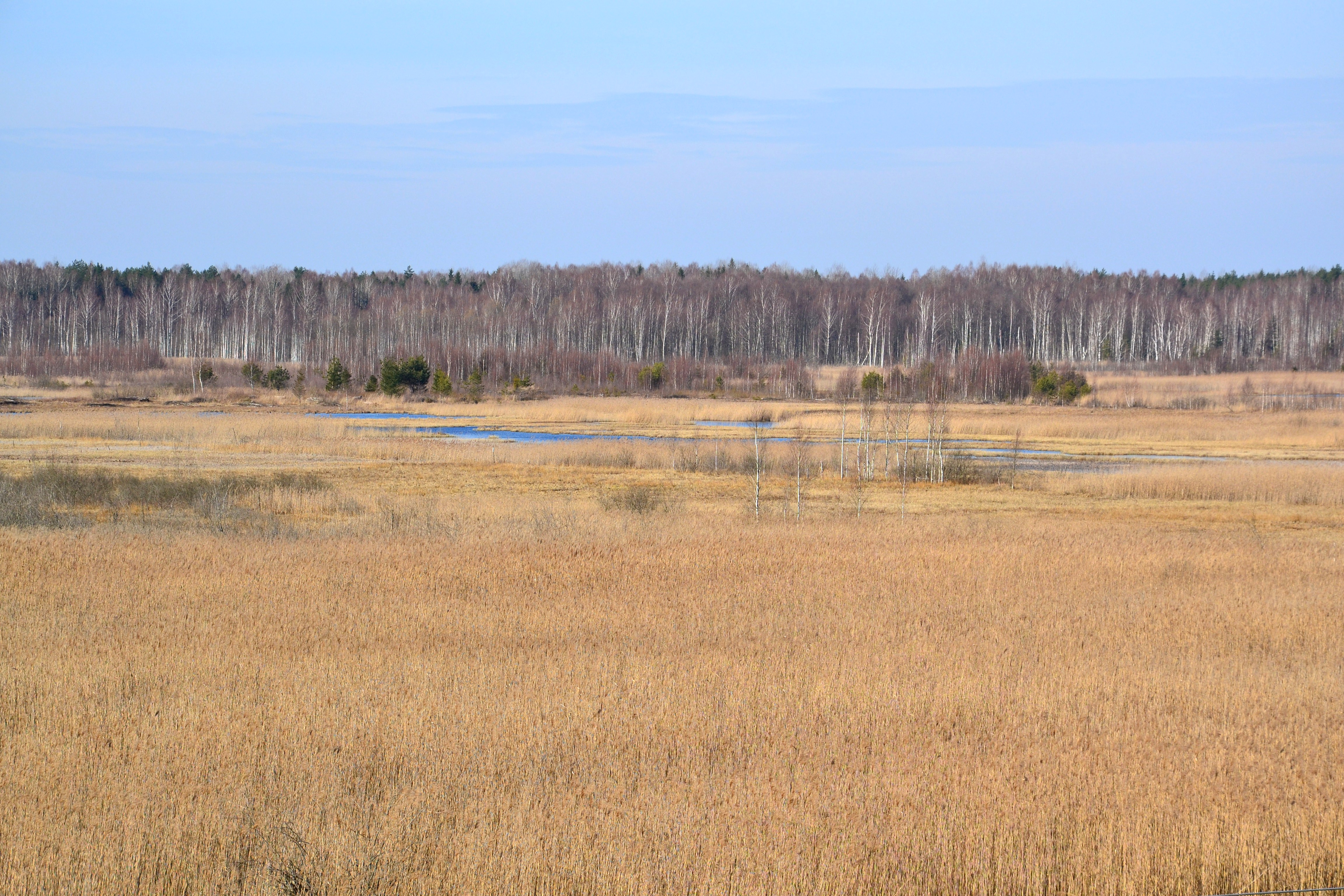 Novaraistis ornitological nature reserve, Lithuania